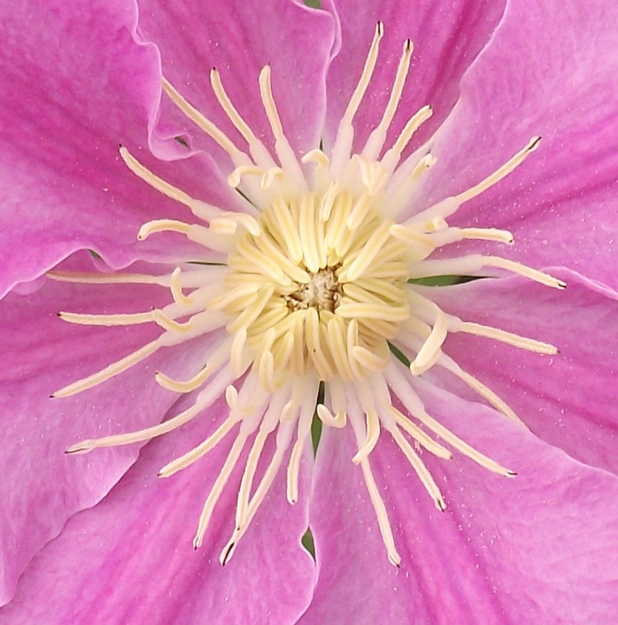 Clematis patens Abilène